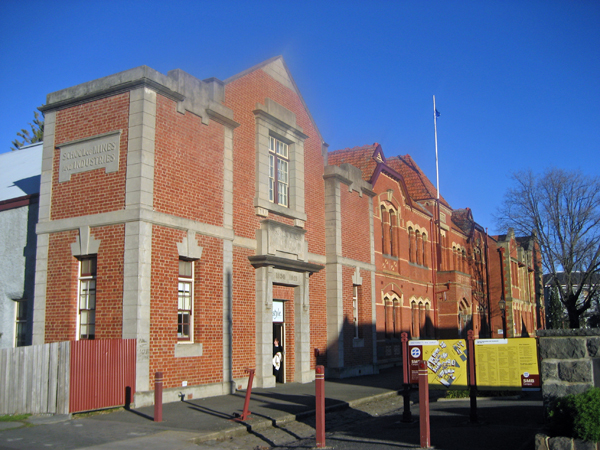 School of Mines Ballarat Victoria Australia